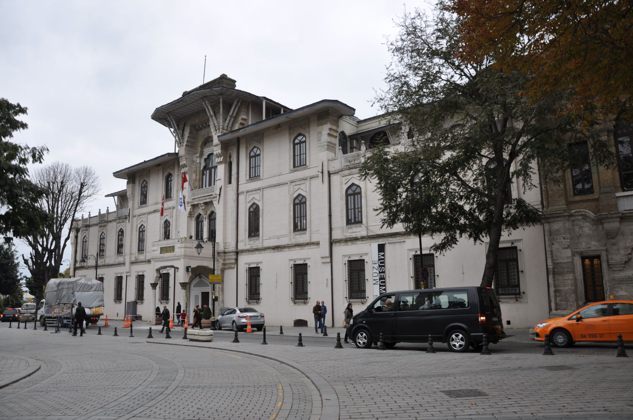 Marmara University, Sultanahmet Campus, Istanbul.